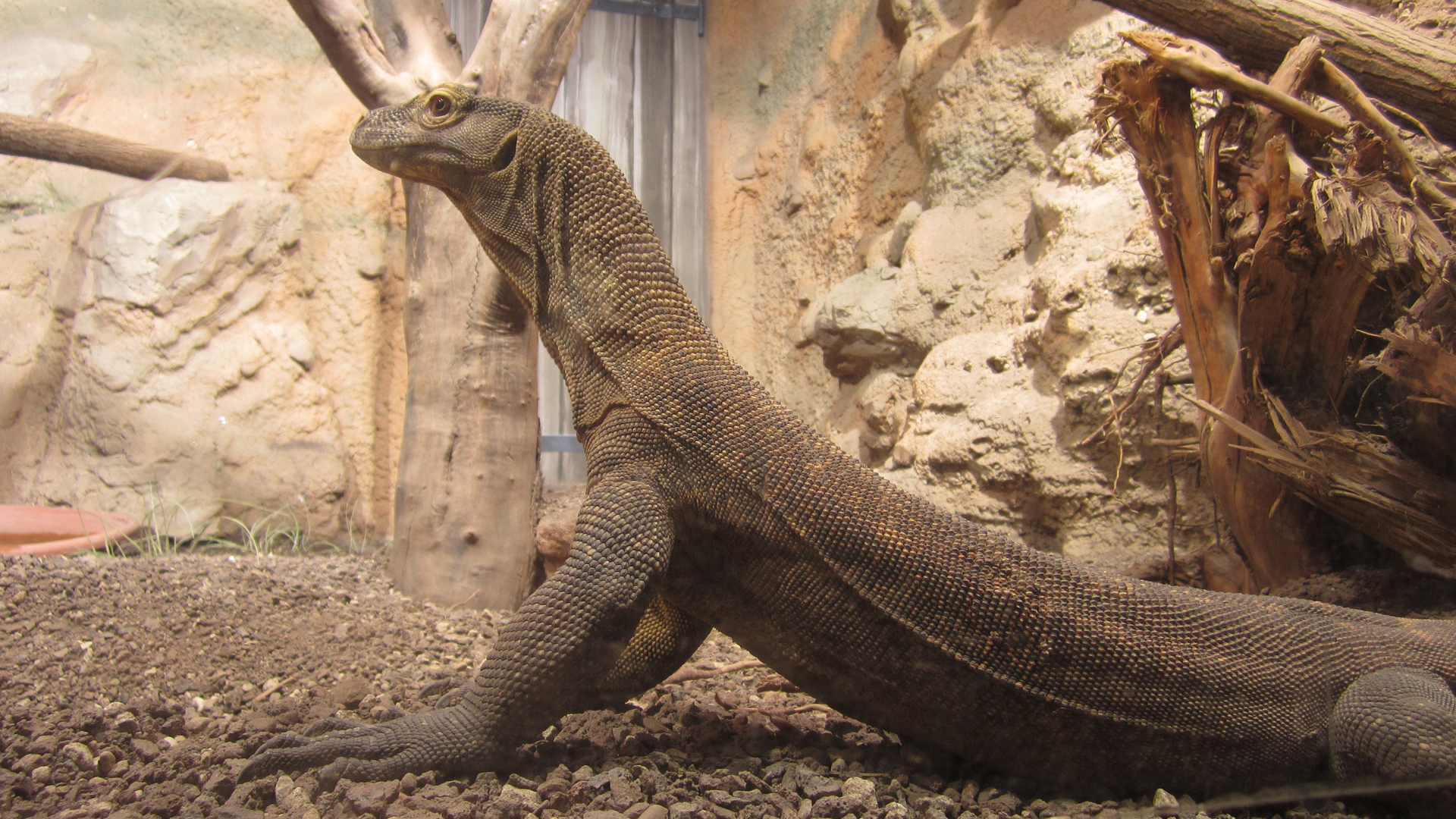 A Komodo dragon also known as Komodo monitor (Varanus komodoensis) at Gondwanaland palm house at Leipzig Zoological Garden.